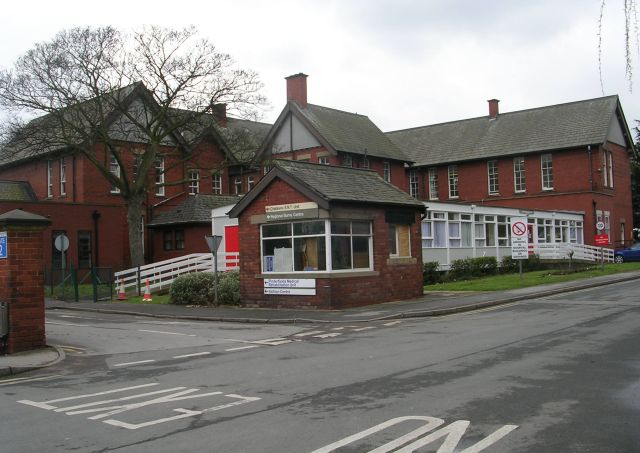 Pinderfields Hospital - Aberford Road